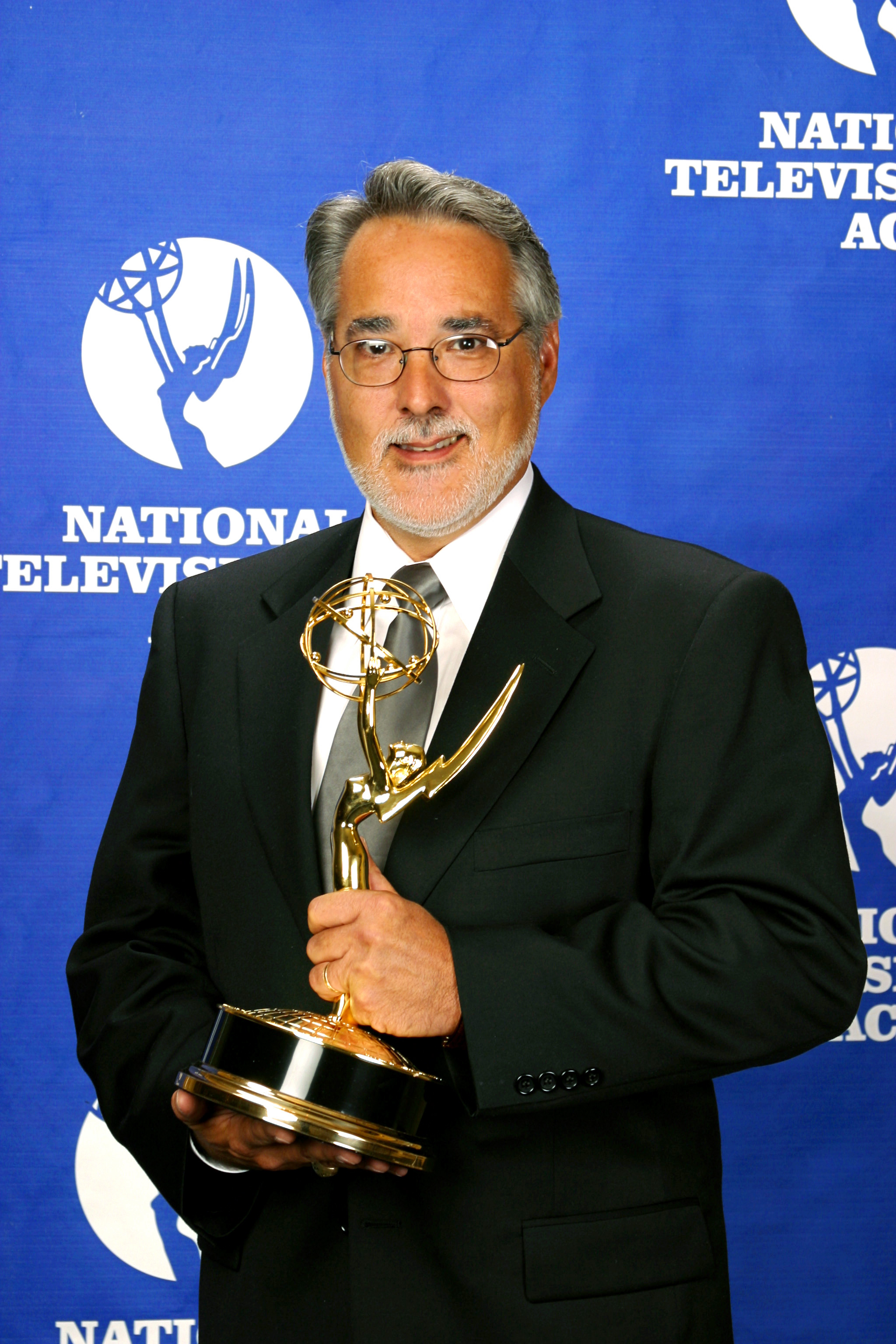 Photograph depicting Allen Morris accepting Emmy Award.